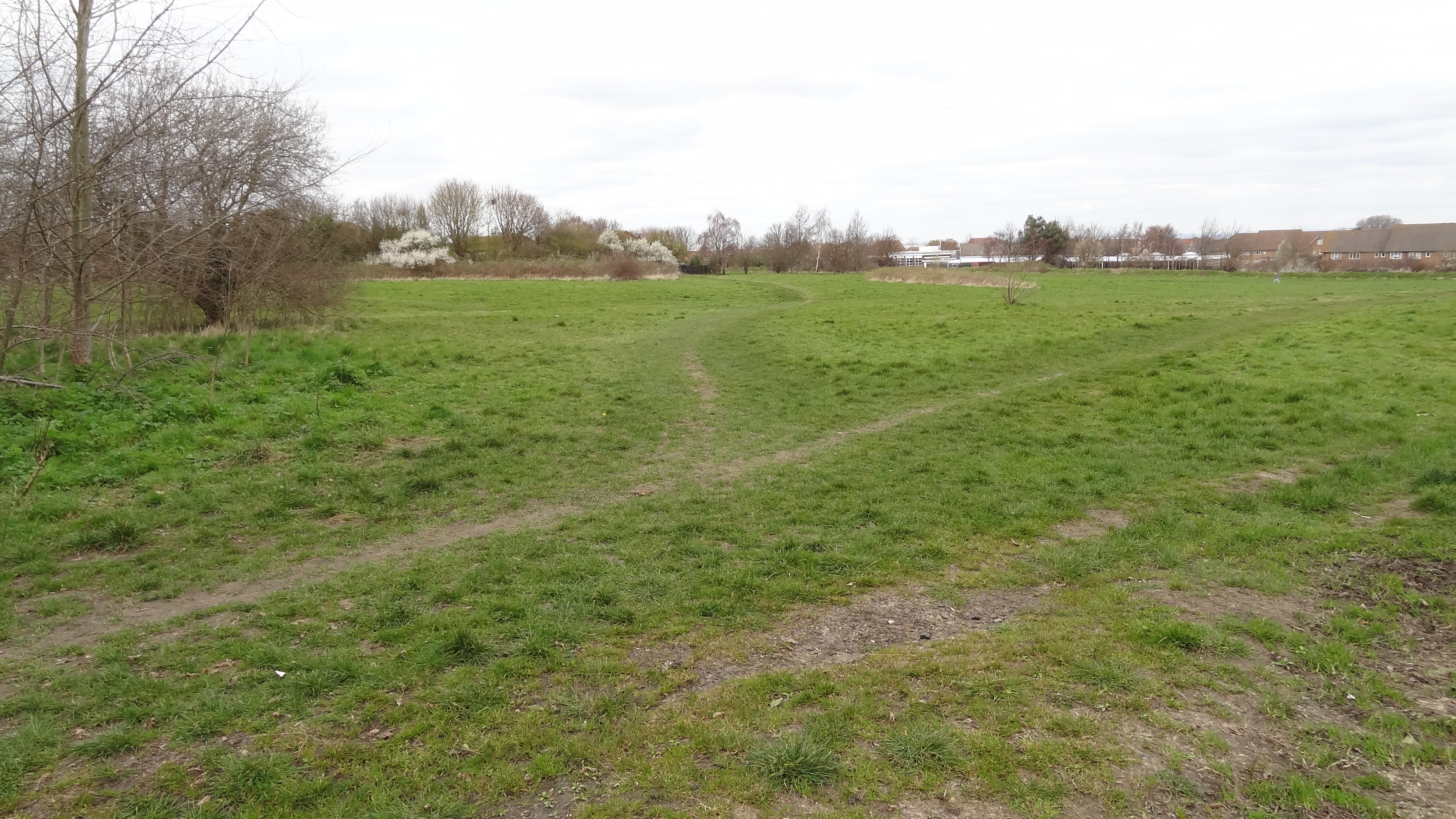 Roundshaw Downs nature reserve in Roundshaw in the London Borough of Sutton